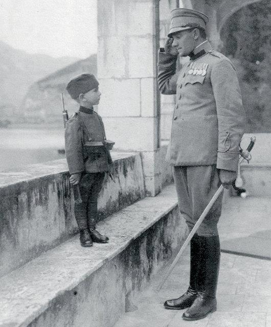 Prince Peter II of Yugoslavia and Prince-Regent Paul, after WWI